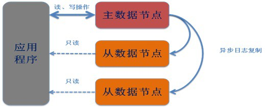 SequoiaDB replica